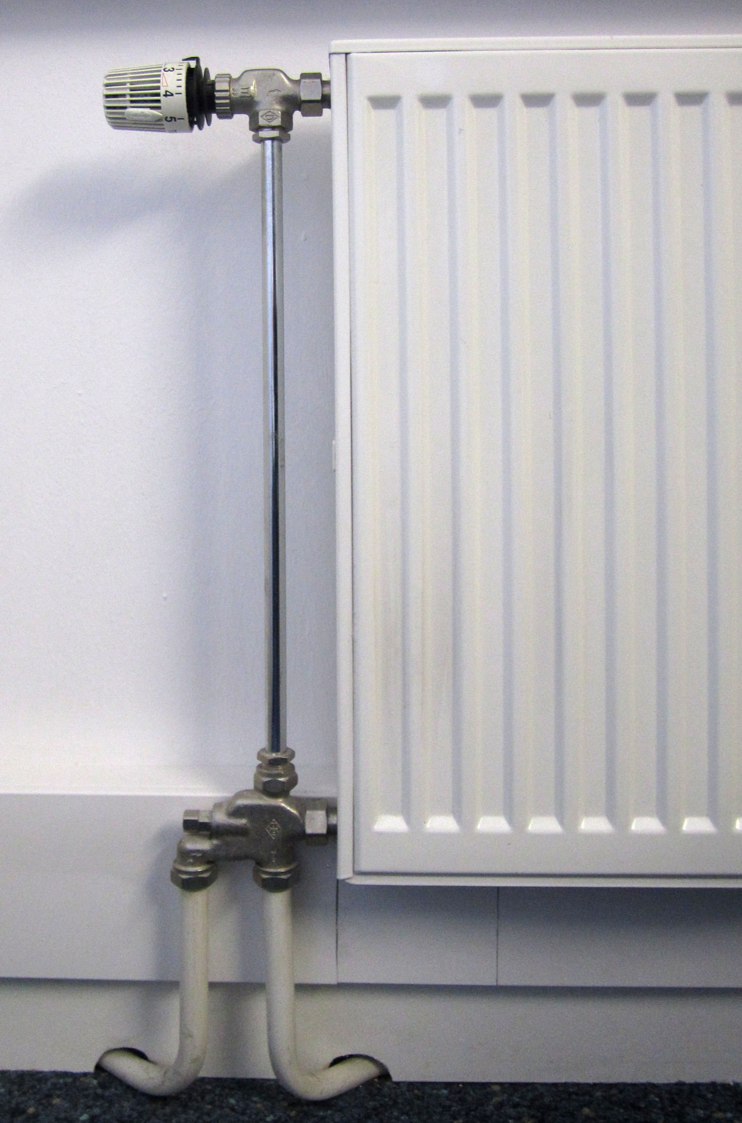 Radiator of a Hot Water Heating System with single pipe connection